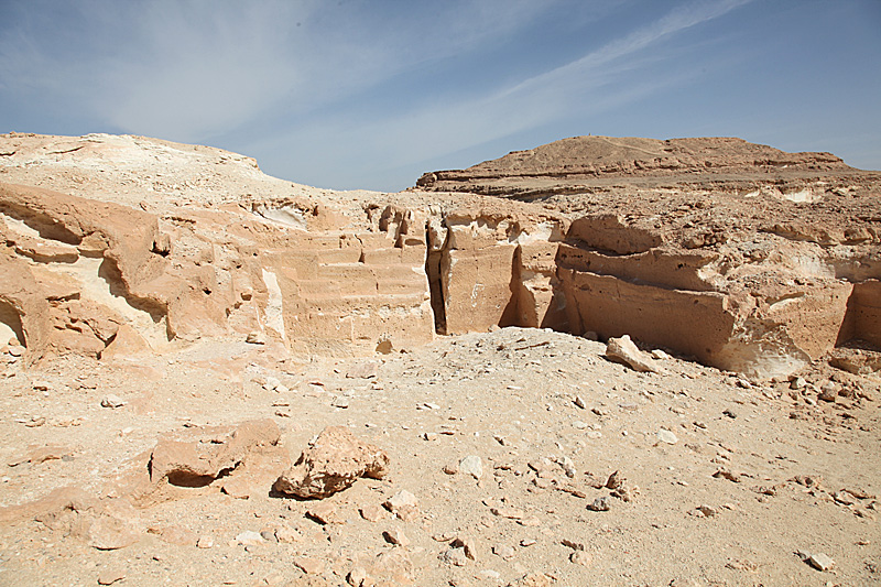 Ancient quarry at el-Dakrur, Siwa, Egypt